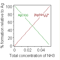 HySS plot